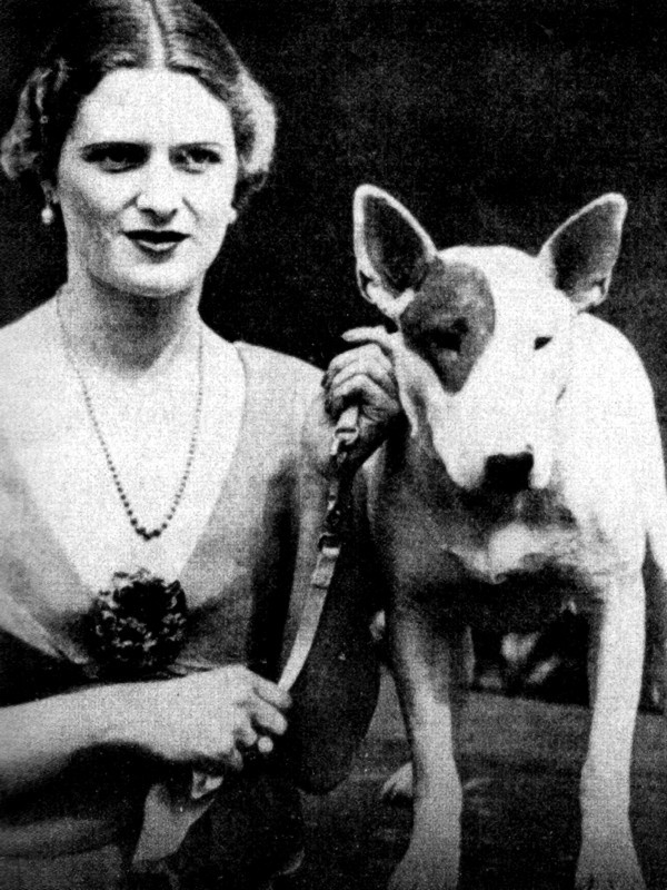 Bull Terrier of actress Jean Melville (1932)